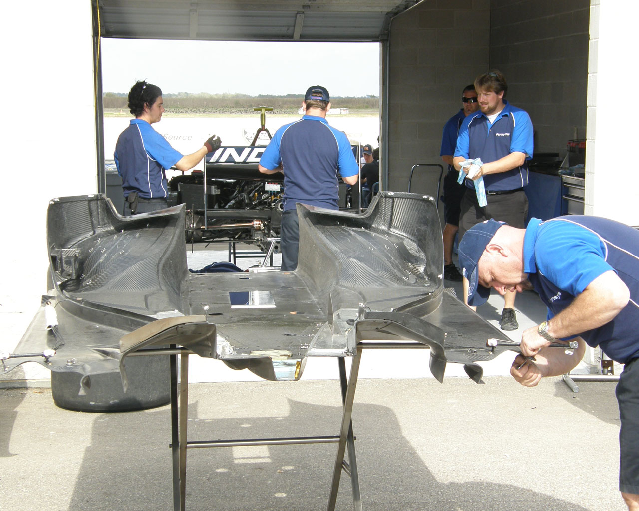 Bottom panel of Panoz DP01 ChampCar.